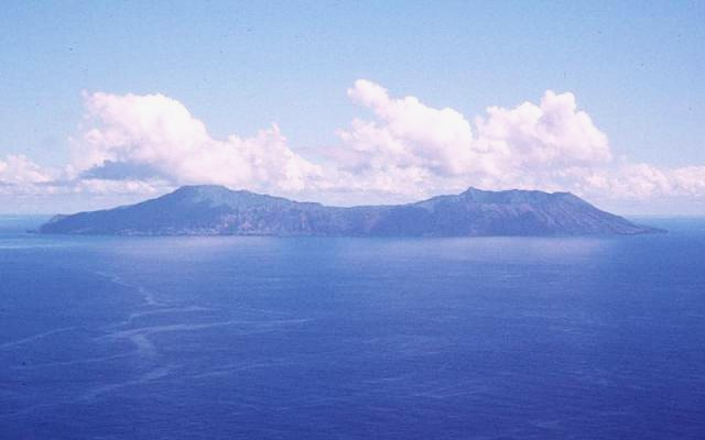 Aerial view of Anatahan Island in the Northern Mariana Islands